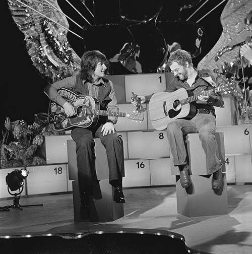 Stealers Wheel in AVRO's TopPop (Dutch television show) in 1973